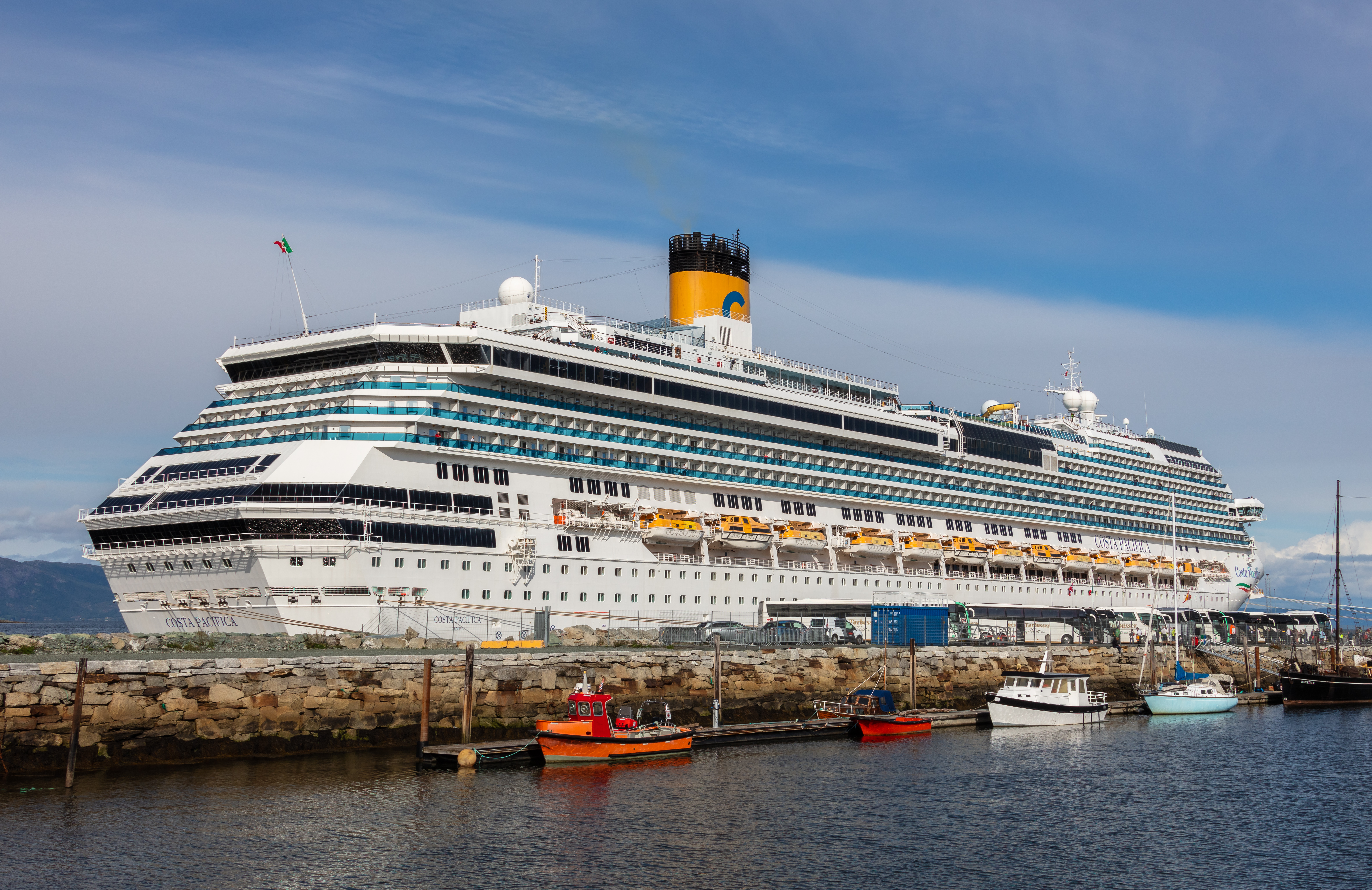 Costa Pacifica vessel, Trondheim, Norway